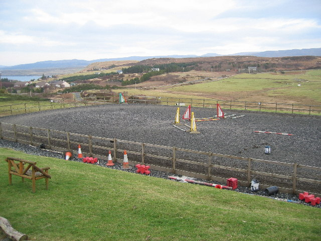 Skye Riding Centre. Despite the name, not the only one on Skye. This is the manège overlooking the village of Suladale.